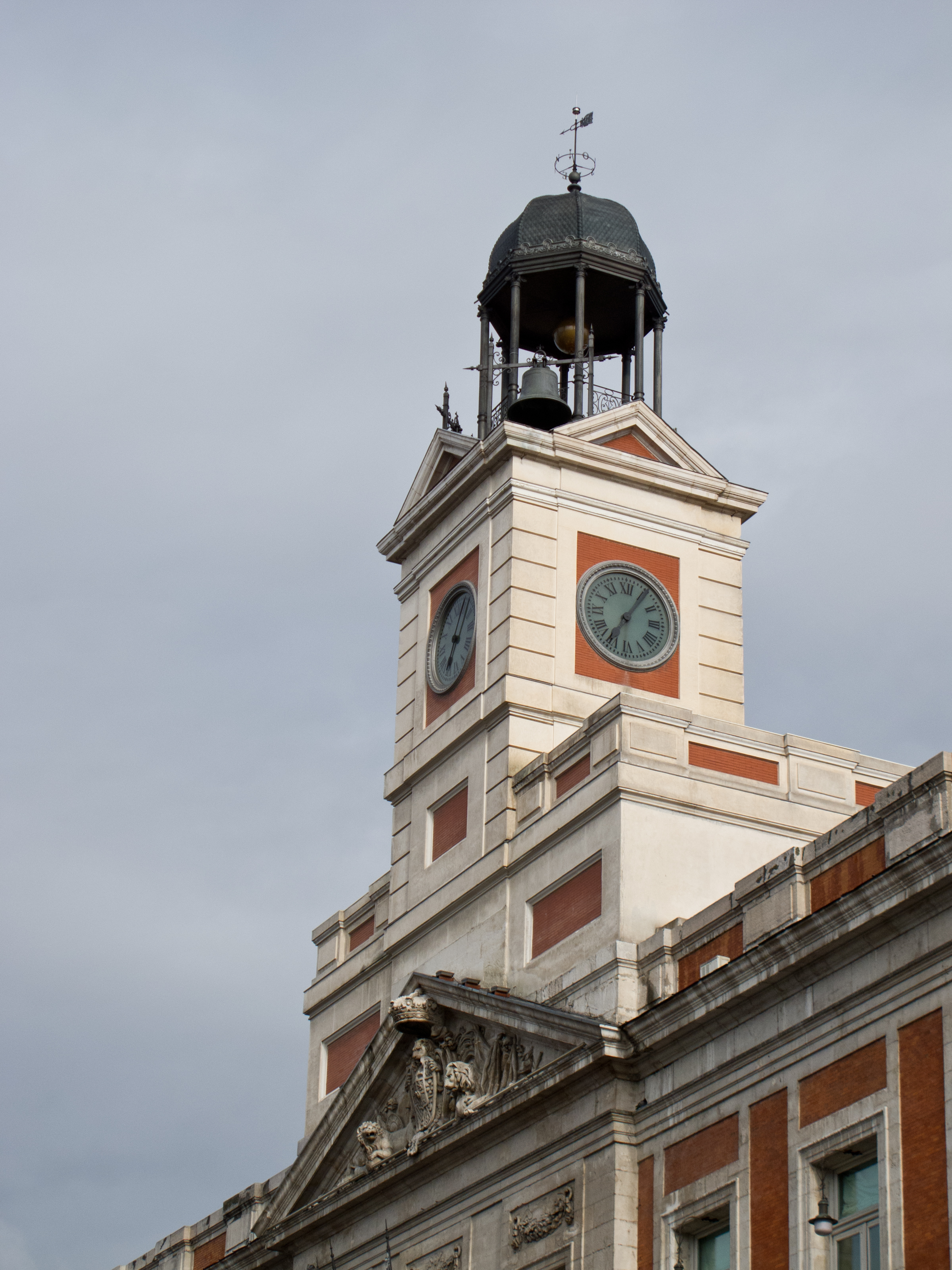 Real Casa de Correos (Royal Mail House), Madrid, Spain.